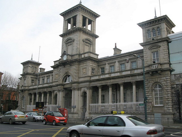 Connolly Station, Dublin One of two main train stations in Dublin, the other being Heuston.